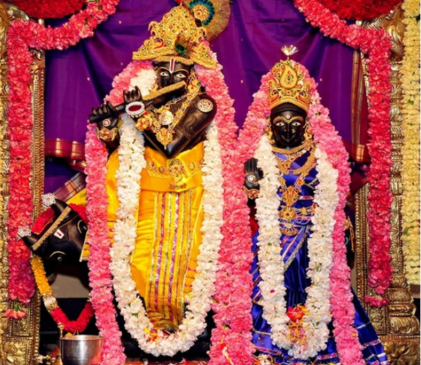 Picture of Shri Radha Krishna taken at Parashakthi Temple in Pontiac, Michigan